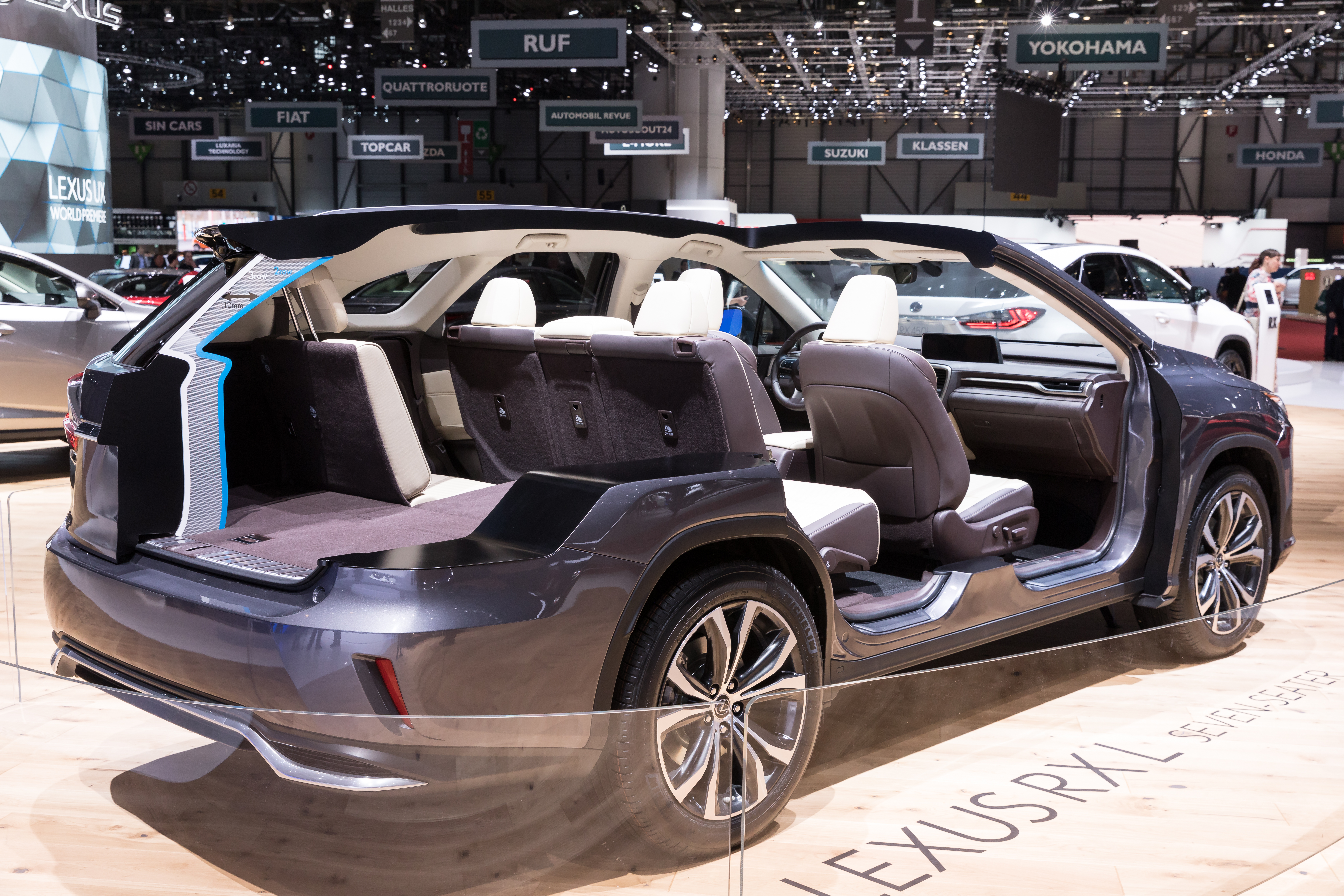 Lexus RX L at Geneva International Motor Show 2018